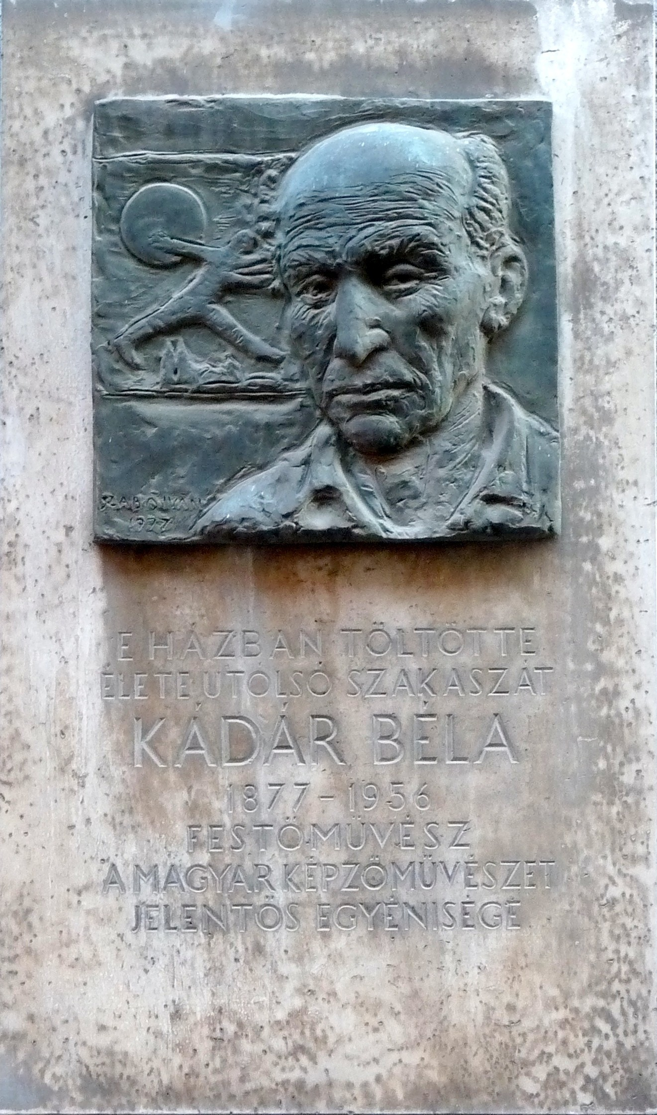 Béla Kádár (painter) commemorative plaque with relief in Budapest District VIII, Bródy Sándor Street No 17. The bronze relief was created by Iván Szabó.